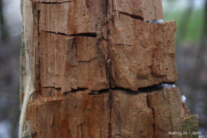 Brown rot in af Birch tree.